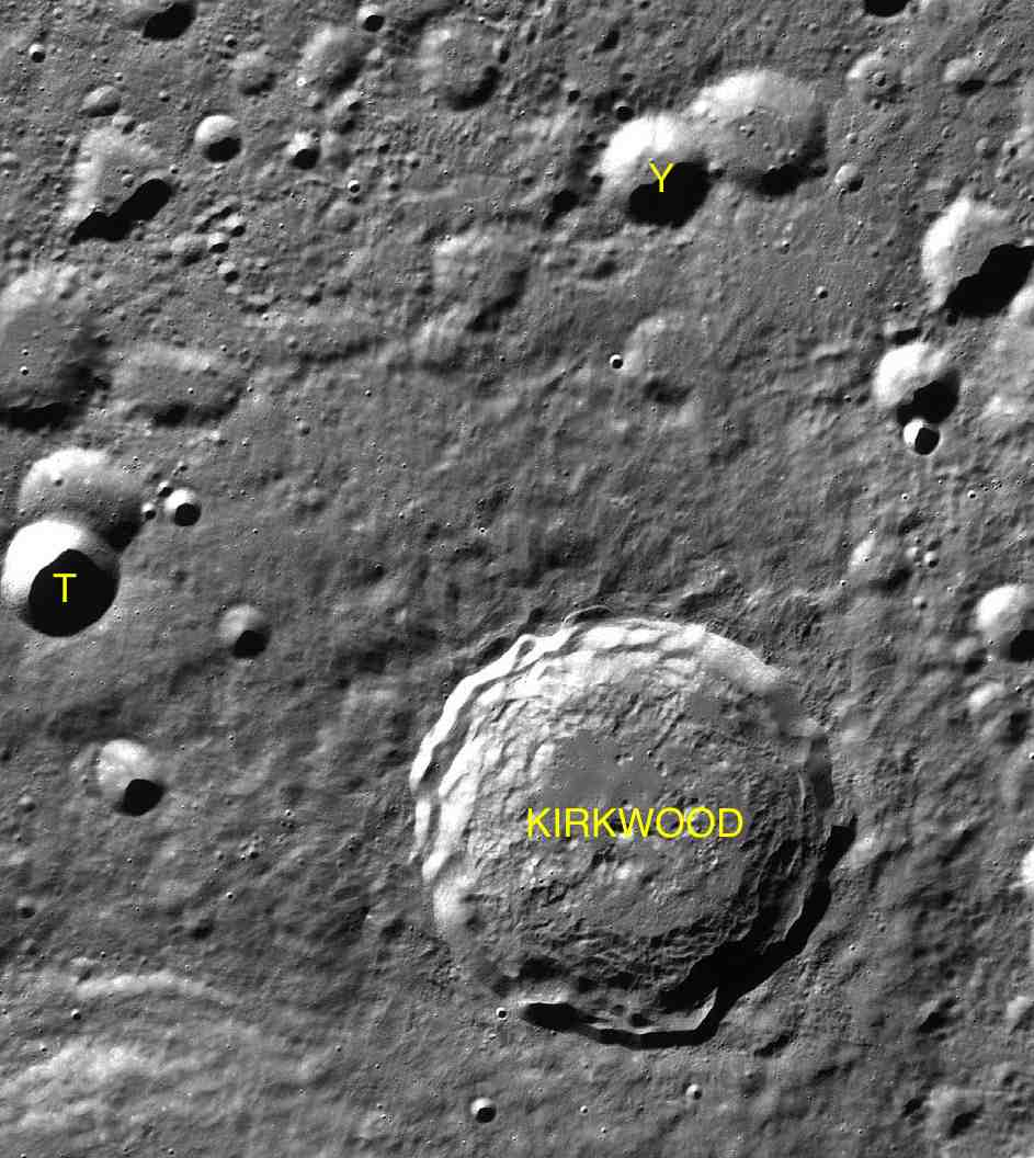 Part of the chart LAC-8 used for the presentation